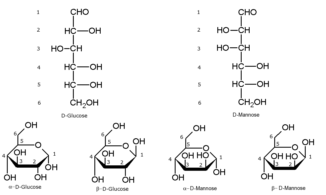 Chemical diagram showing straight-chain and hemiacetal versions of both D-Glucose and D-Mannose. Prepared with ADC/ChemSketch 10.0 and GIMP 2.2.